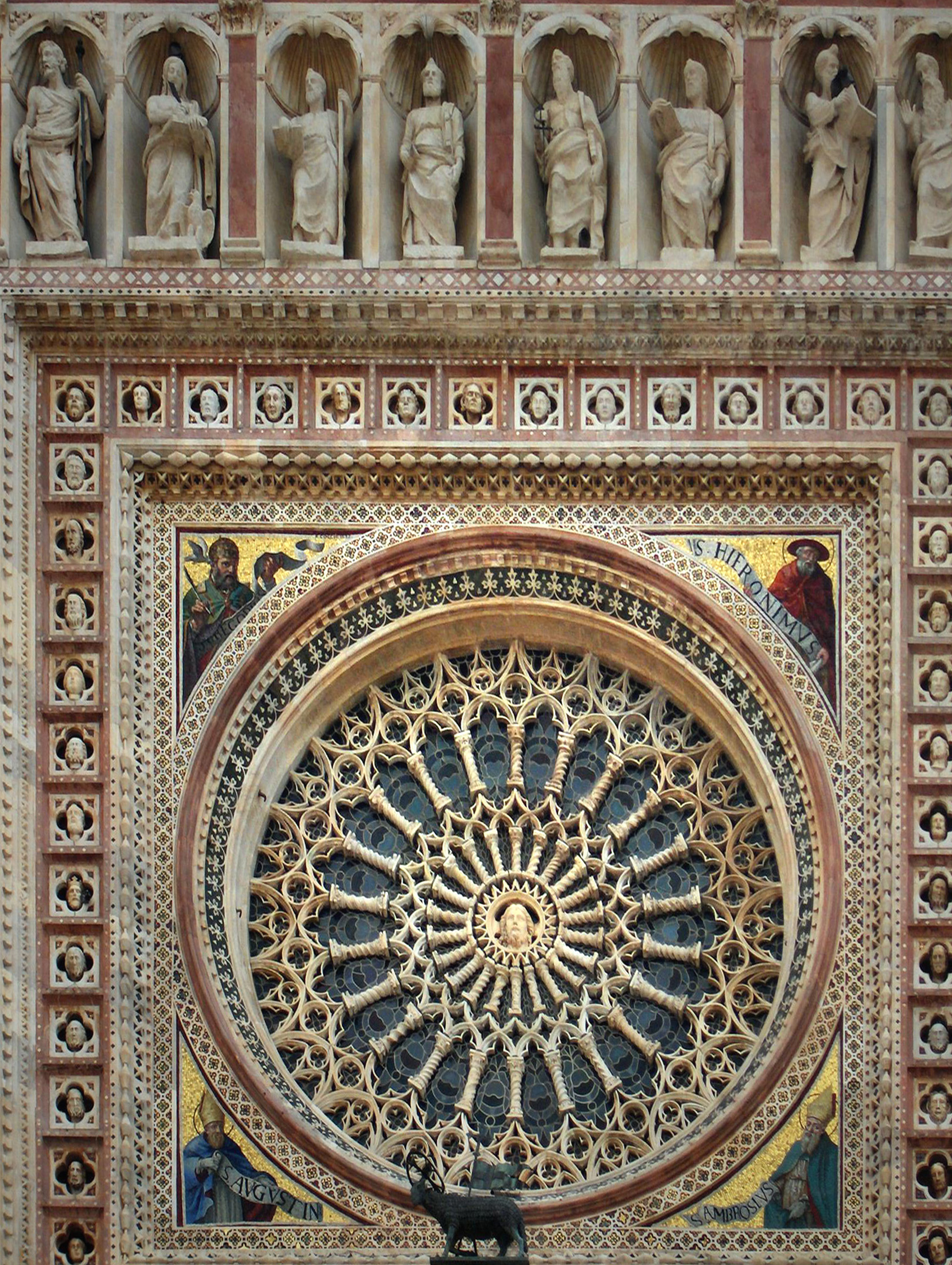 Rosette with mosaics of the Four Doctors of the Church (Gregorius, Hieronymus, Augustinus and Ambrosius) over the central portal of the cathedral of Orvieto, Italy